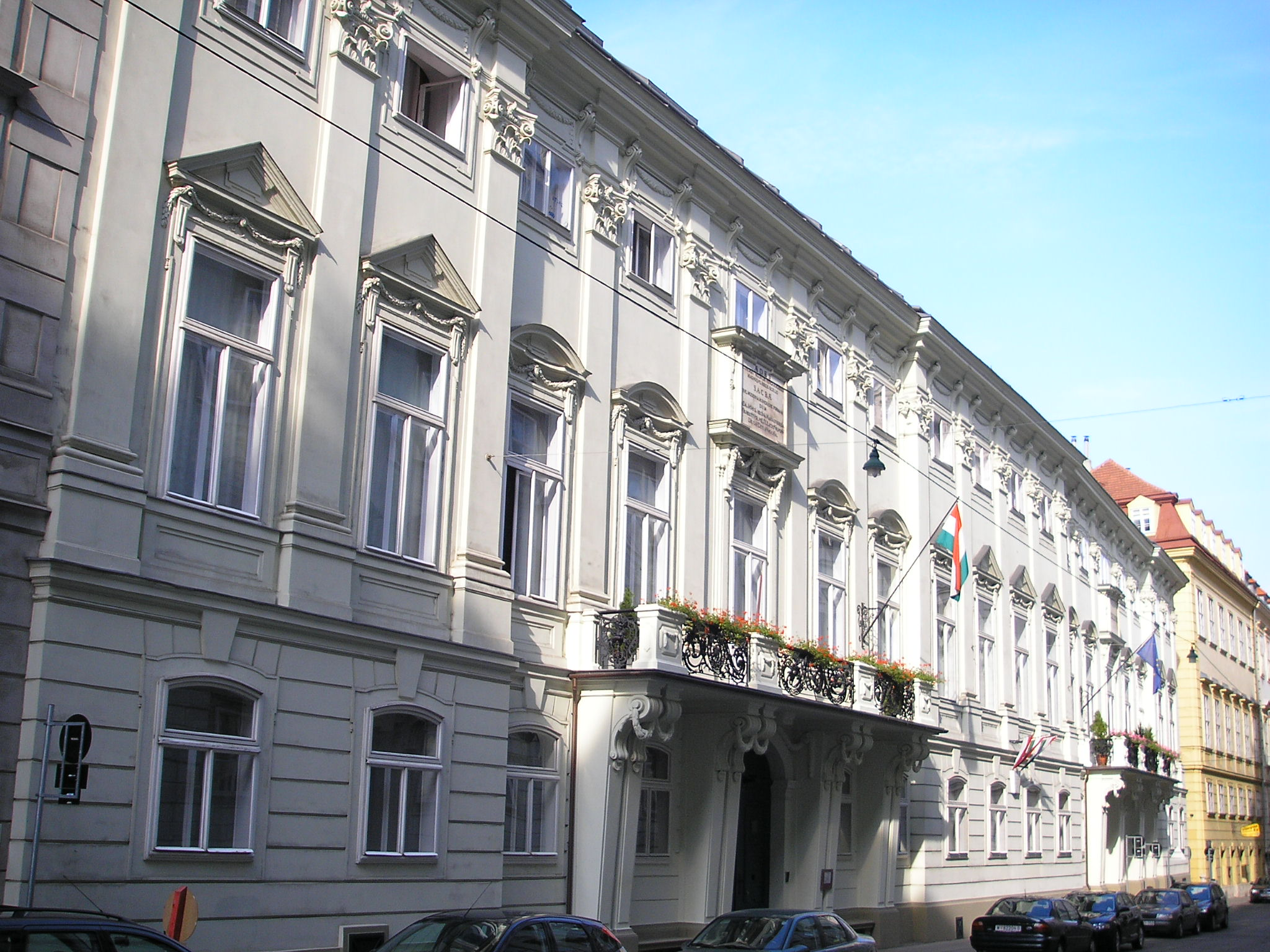 Image of the Palais Strattmann, today the Hungarian embassy in Austria. The embassy building consists of two Palais which were combined together.